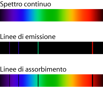 Spectral lines of an hypothetic material.